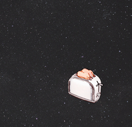 art work depicting a cartoonish toaster in space